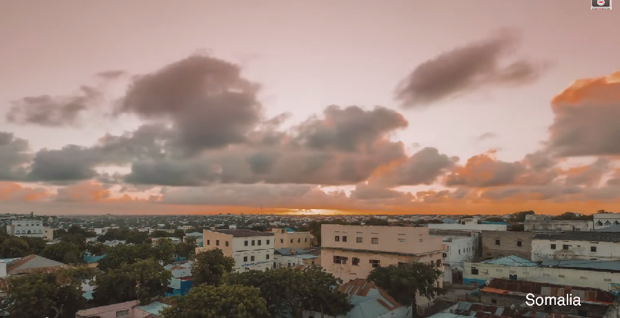 Lovely Mogadishu